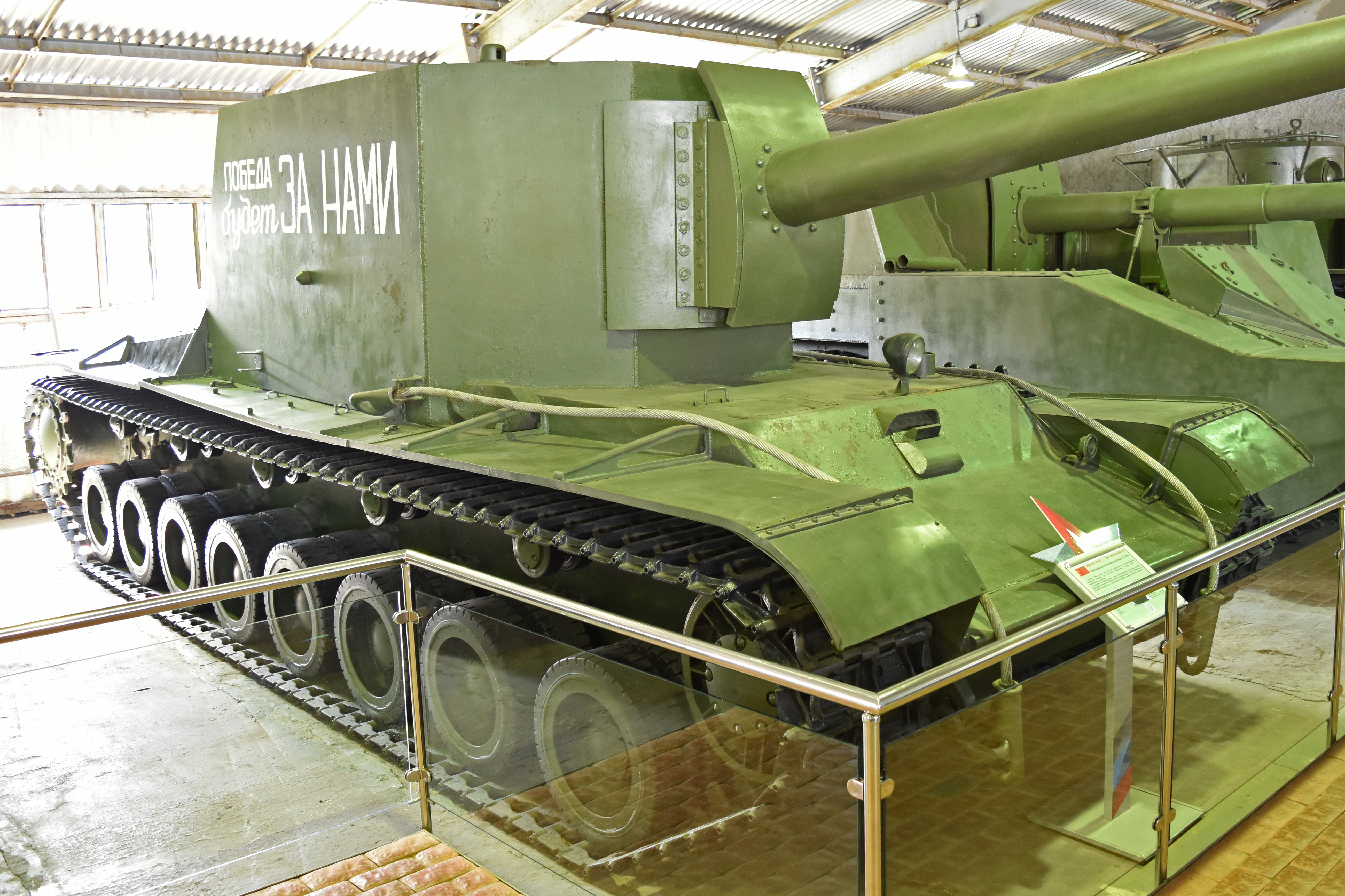 Manufacturer:- Izhorskyi Factory Built:- 1940 Main armament:- 130mm B-13 naval gun A one-off prototype developed from the prototype T-100 heavy tank. Although a prototype, it actually saw action in the defence of Moscow during late 1941 along with the SU-14-2 and other prototypes from the Kubinka testing site. On display in what is best known as Hall1 of the Kubinka Tank Museum, although its official title is now Pavilion 1 in Area 2 of the Park Patriot museum. Kubinka, Moscow Oblast, Russia. 24th August 2017.